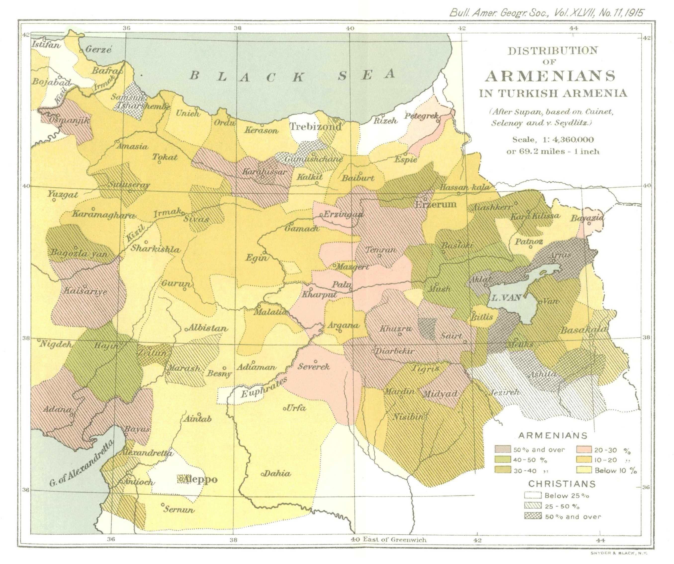 Distribution of Armenians in Turkish Armenia.